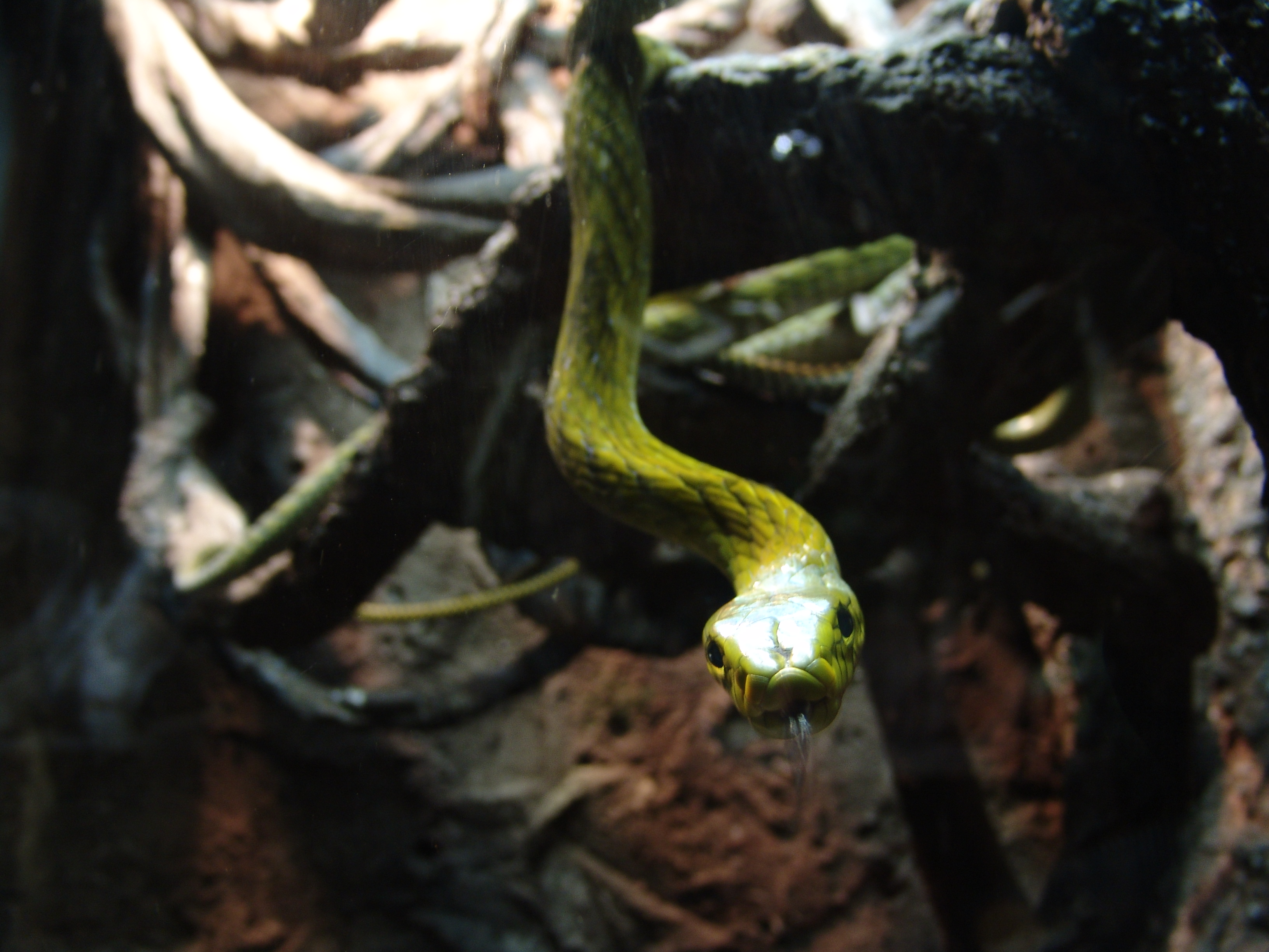 Western green mamba at Wilmington's Serpentarium. I took the picture.